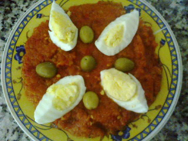 This is an image of food from Tunisia